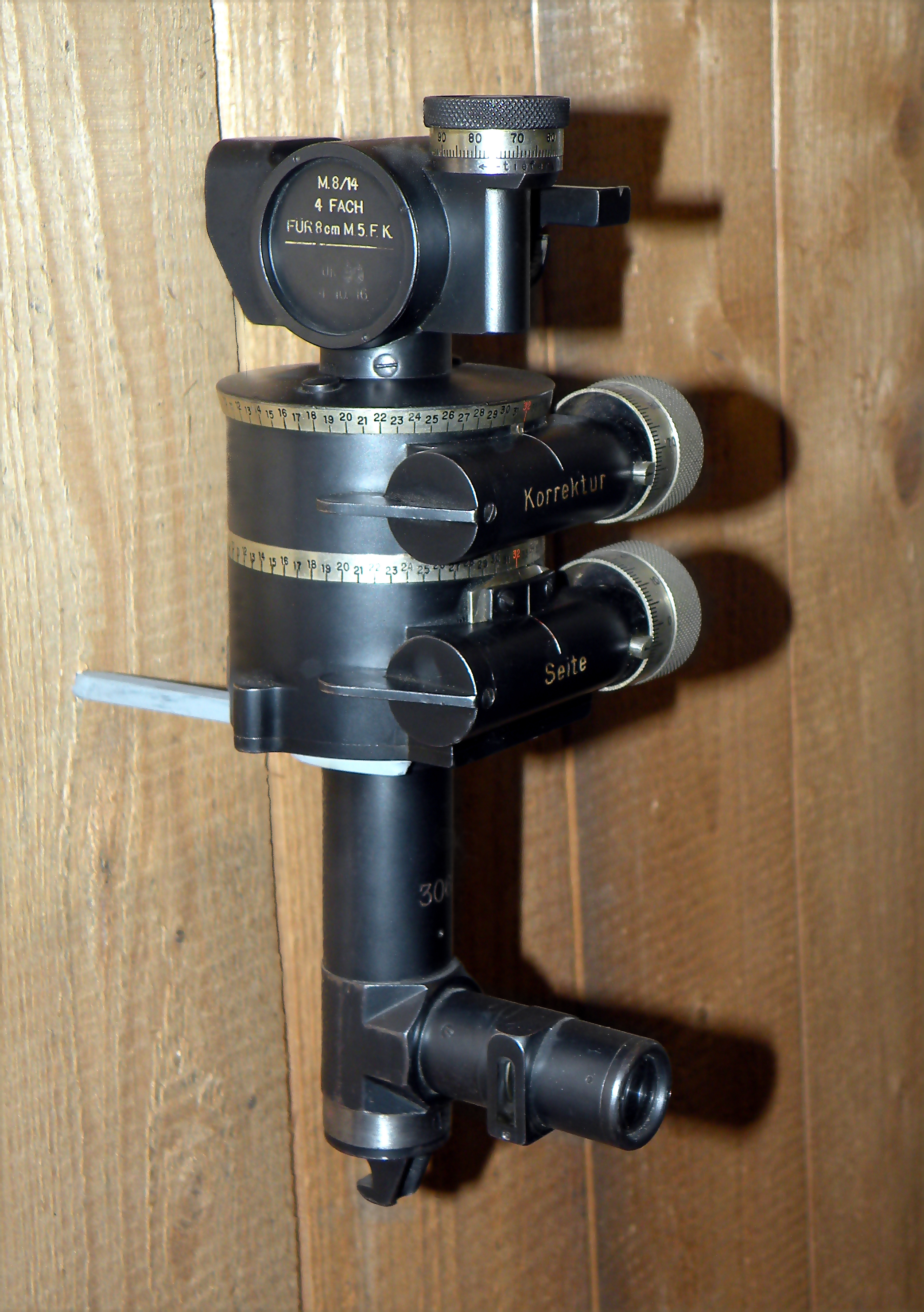 Austro-Hungarian panoramic telescope (dial sight) M1908/14 by Hertz. The inscription says "M. 8/14 4 FACH für 8 cm M. 5. F. K."